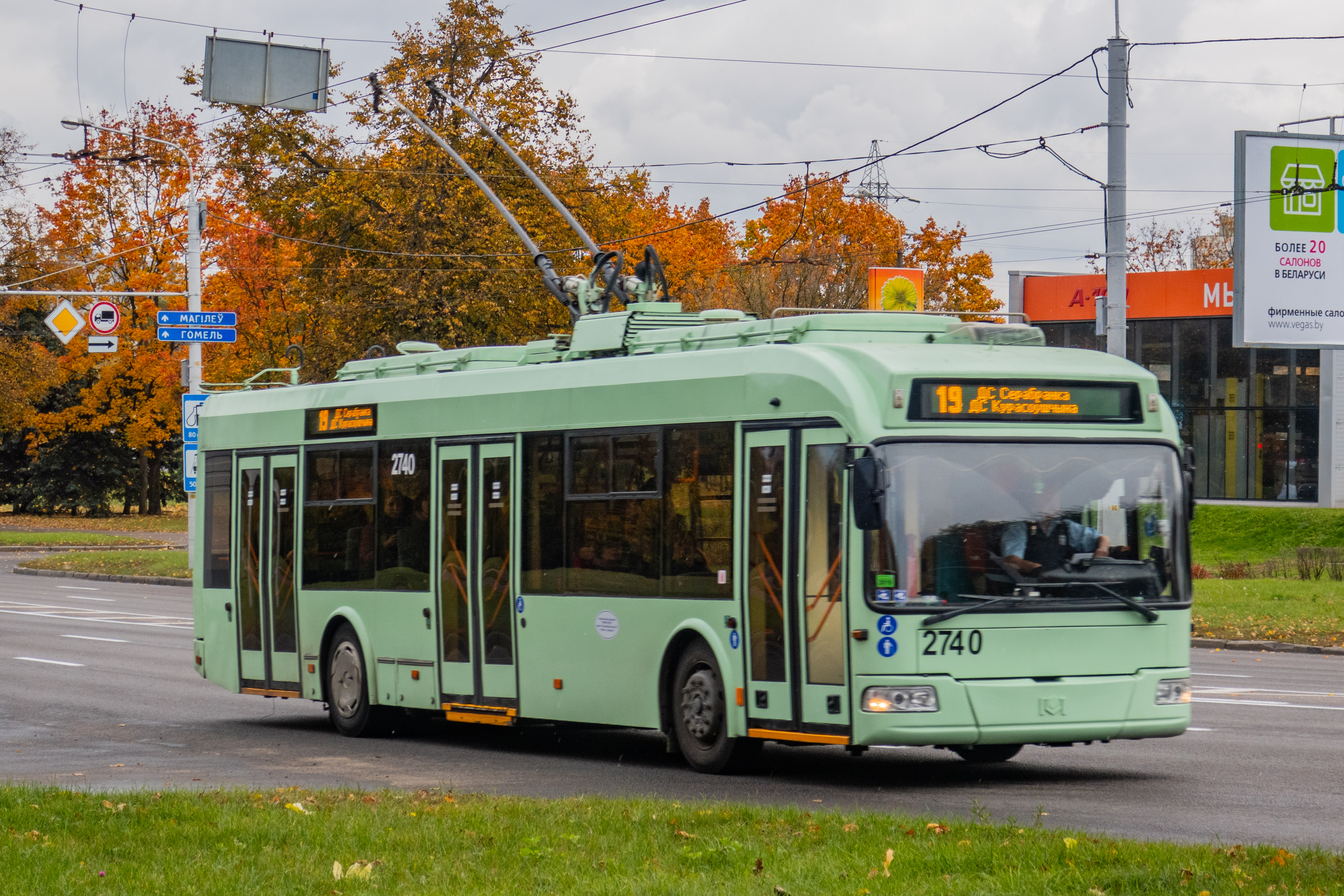 AKSM-321 No 2740 trolleybus on route 19. Minsk, Belarus